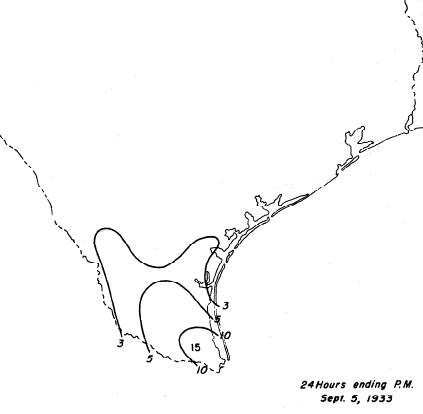 Rainfall map for a hurricane hitting southern Texas on September 5, 1933